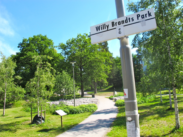 The Willy Brandt Park in the area Hammarbyhöjden in Stockholm